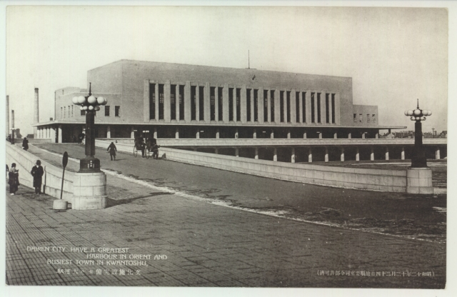 Dalian Railway Station — of the South Manchuria Railway, in northeastern China. Built in 1937 in Art Deco 'Moderne style' — during the Japanese operation/occupation period.